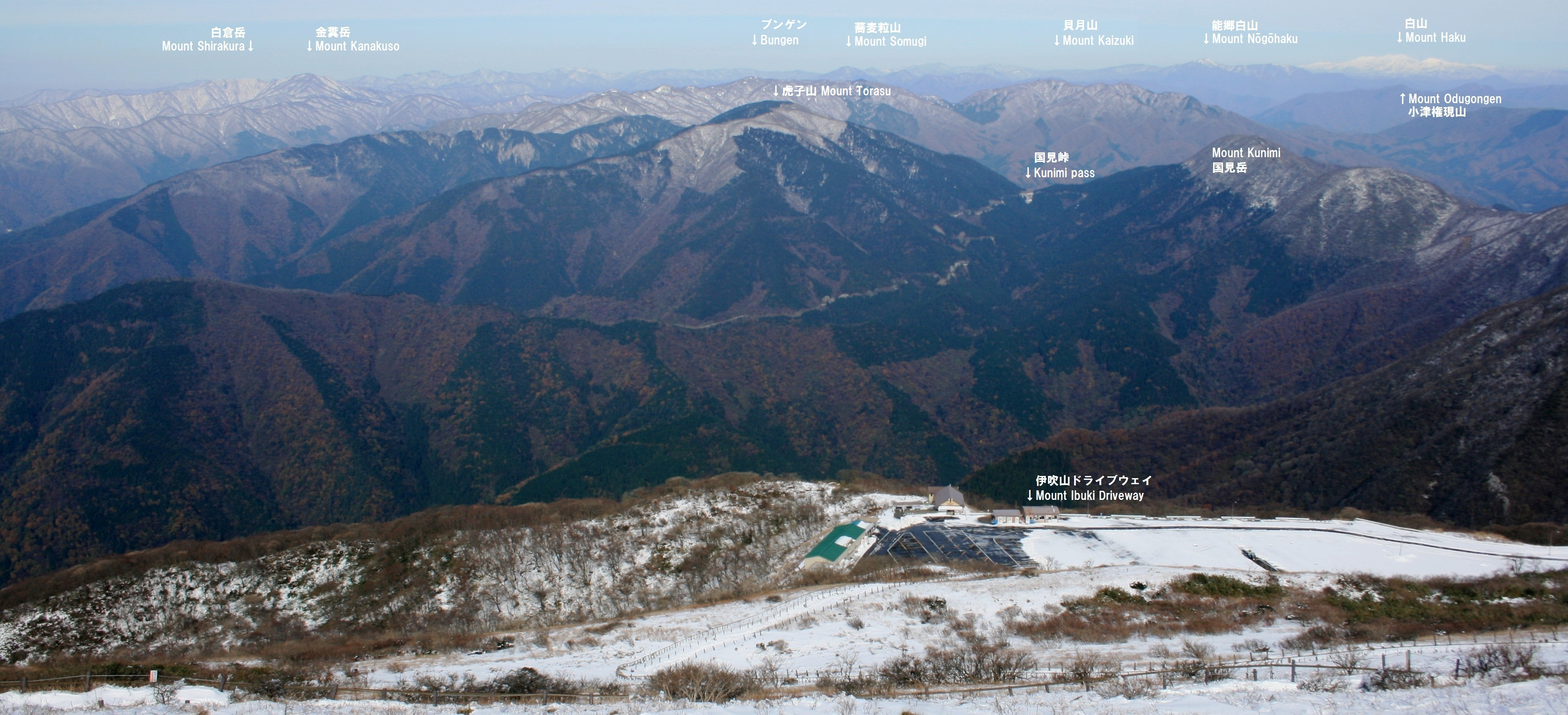 North view from Mount Ibuki